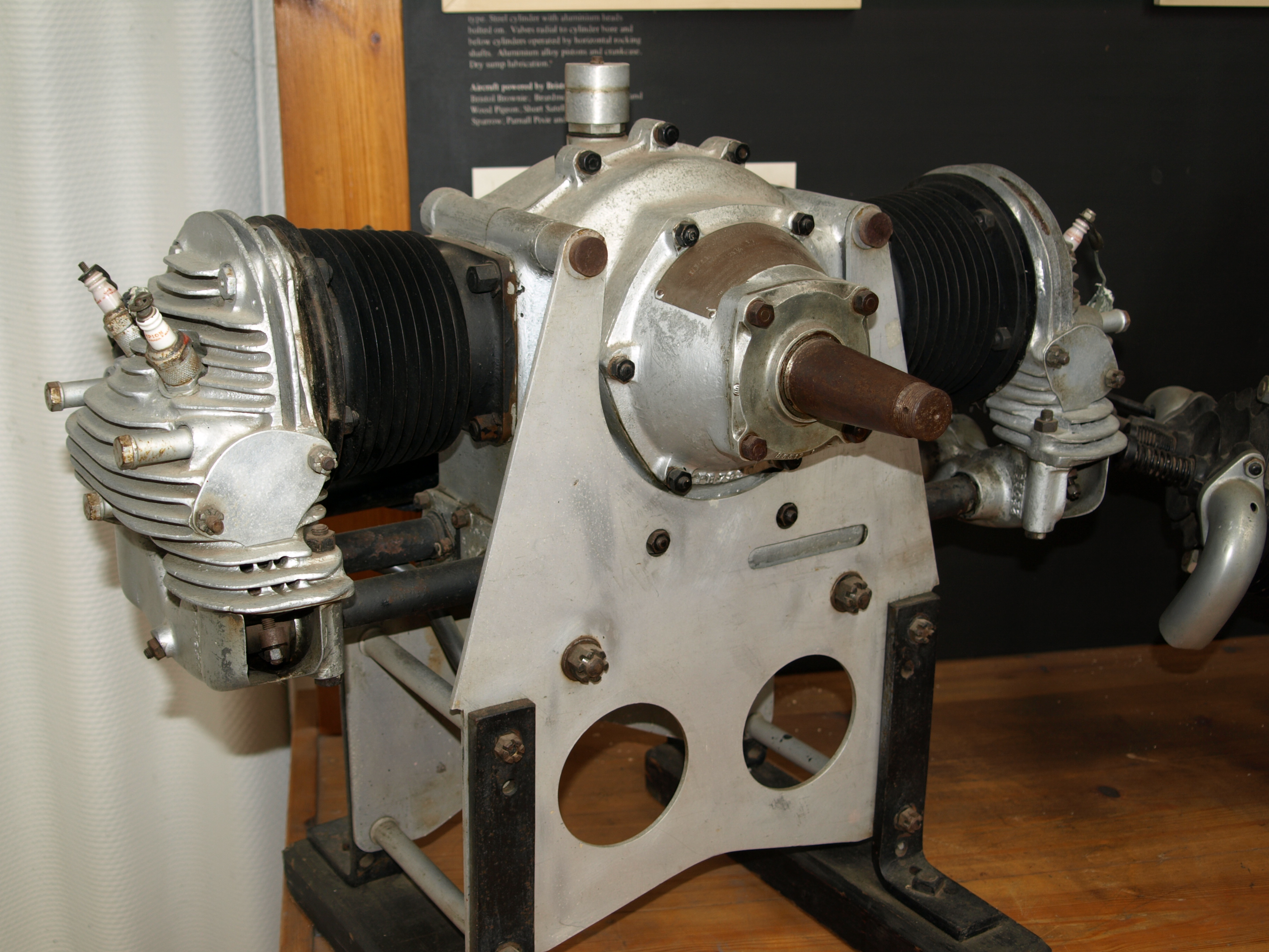 Bristol Cherub aero engine